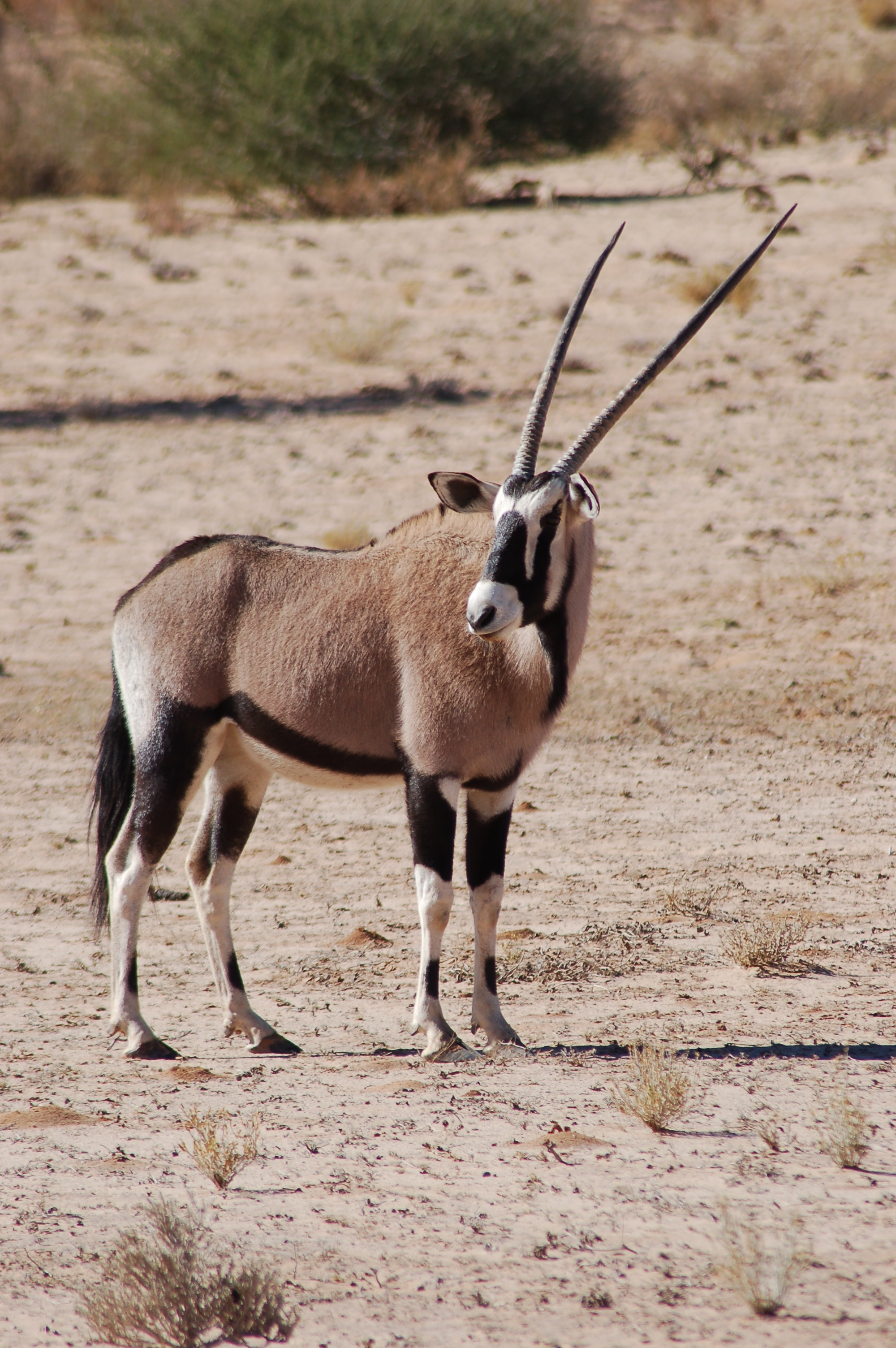 Kgalagadi National Park, South Africa